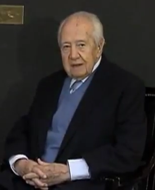 Former President of Portugal, Mário Soares, in 2013.